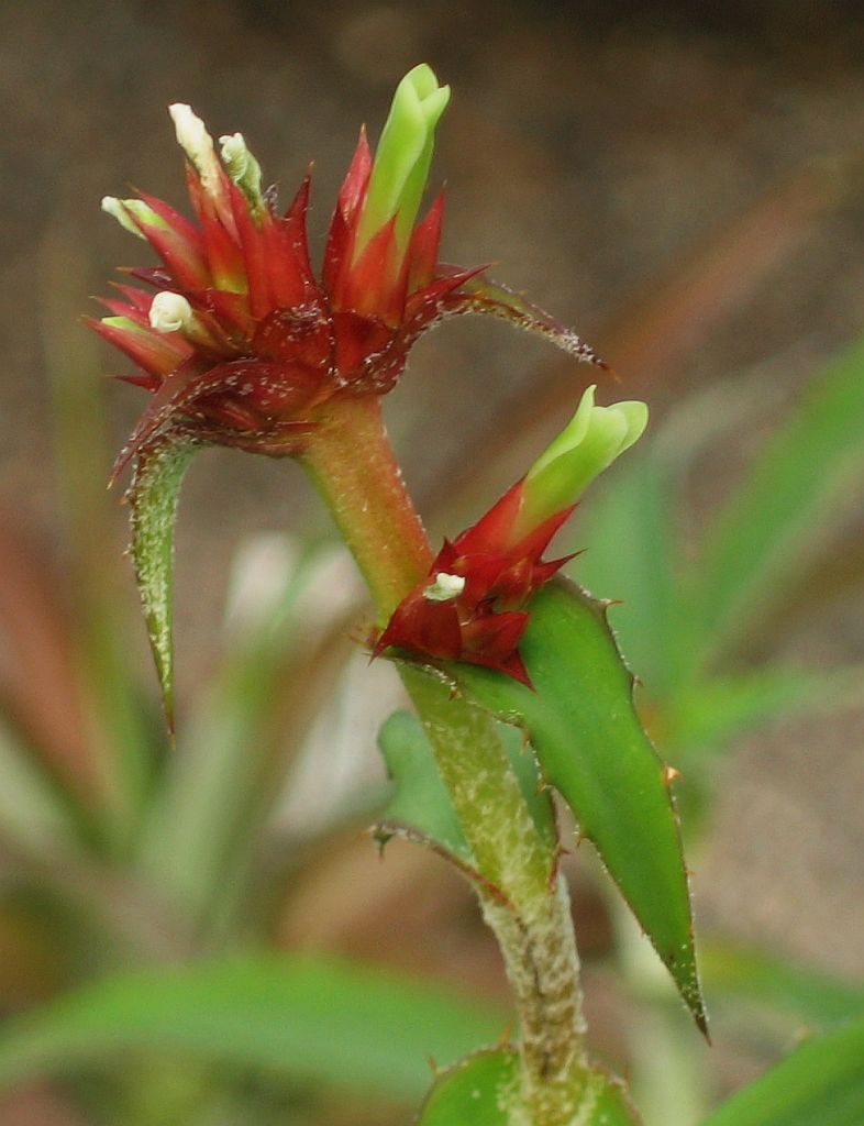 Orthophytum disjunctum var. viridiflorum, in cultivation at the Botanical Garden of Heidelberg, Germany.